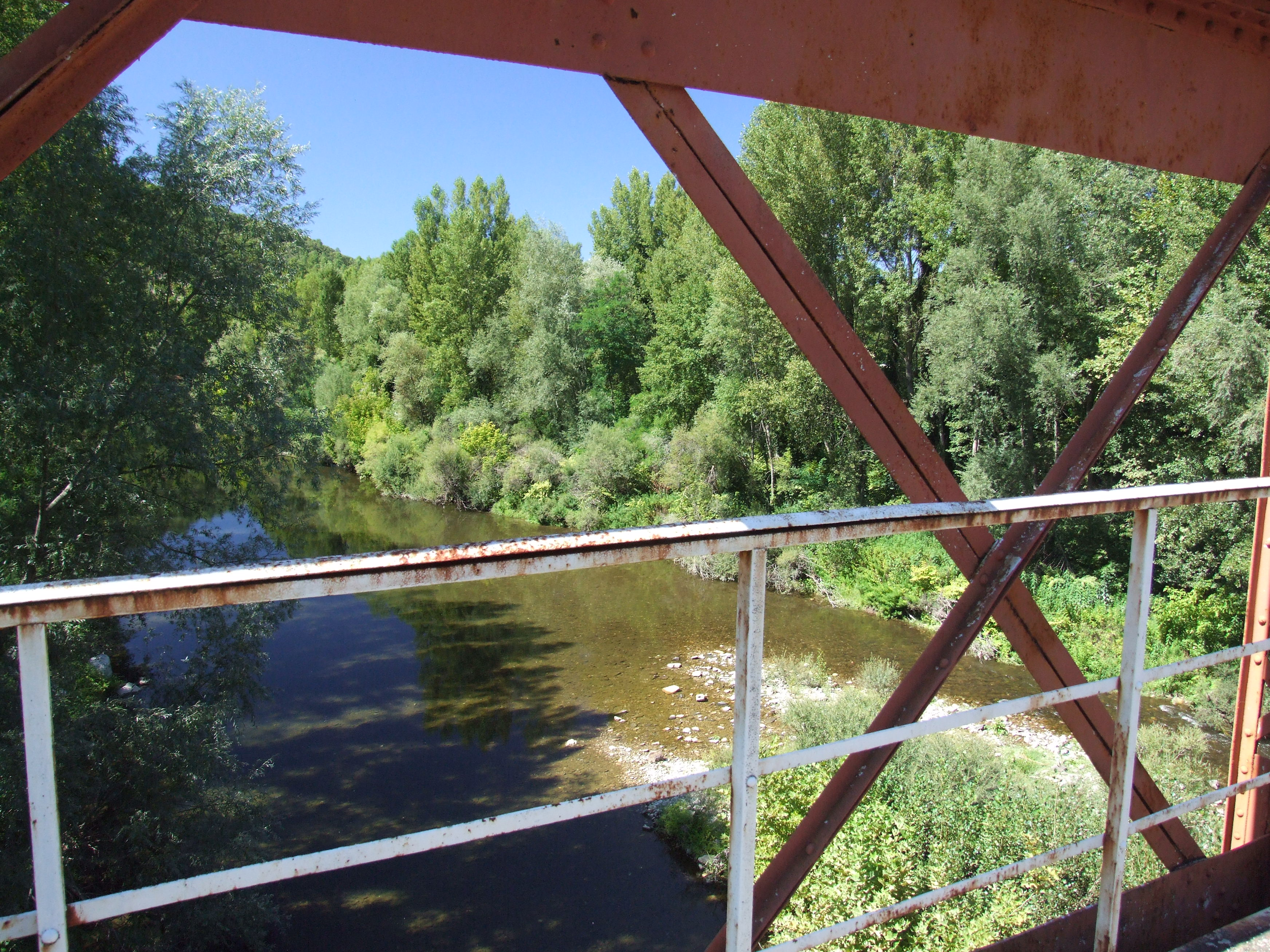 Molières-sur-Cèze is a commune, situated in the Canton of St Ambroix, in the departement of Gard in the region Languedoc-Roussillon in southern France. Its post code is F30410 and INSEE 30171. Taken from the bridge over the Cèze looking upstream